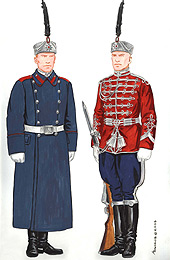 National Guards Unit of Bulgaria Serviceman's Uniform.